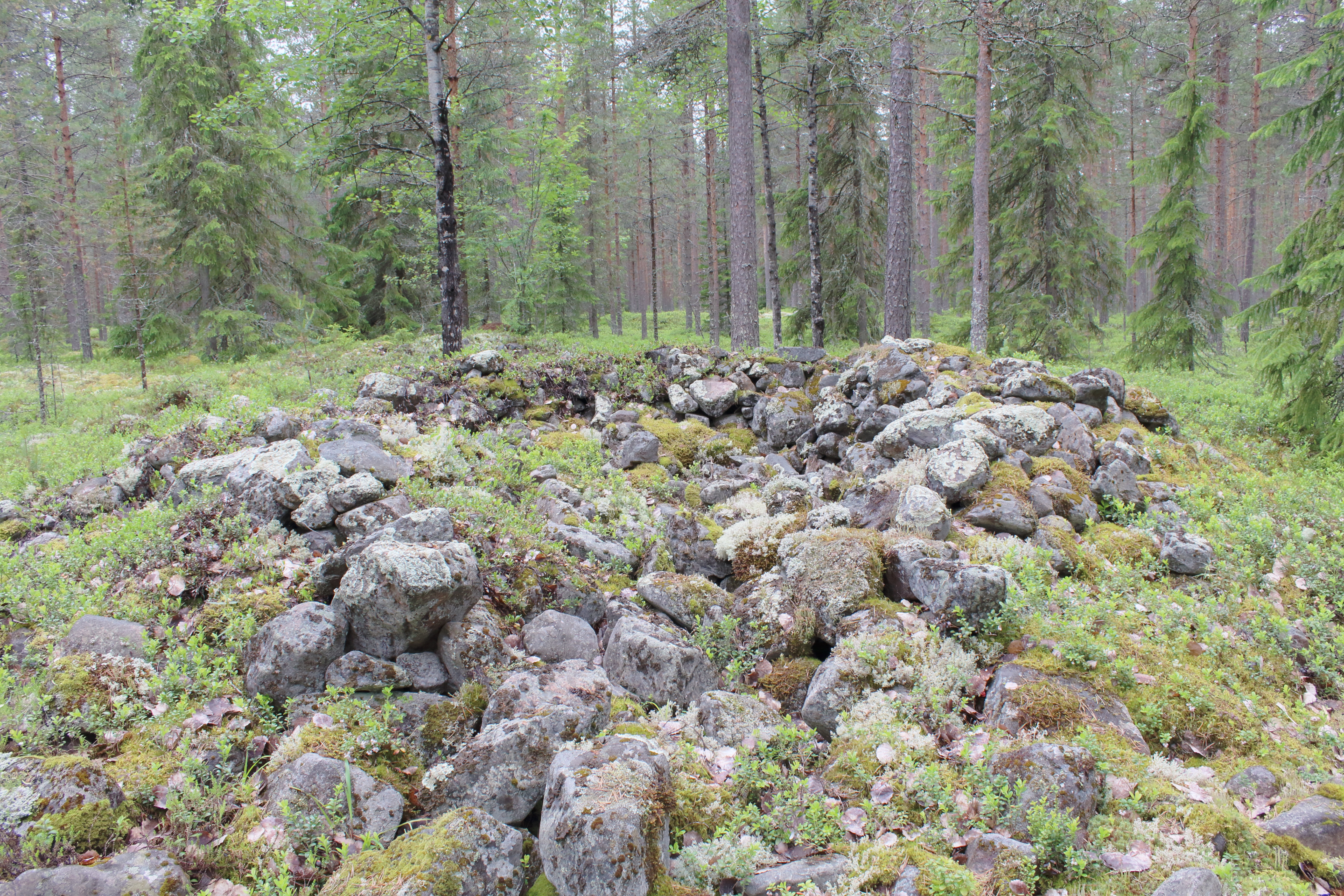 Remains of stone cairn at the Kettukangas archeological site in Raahe, Finland.